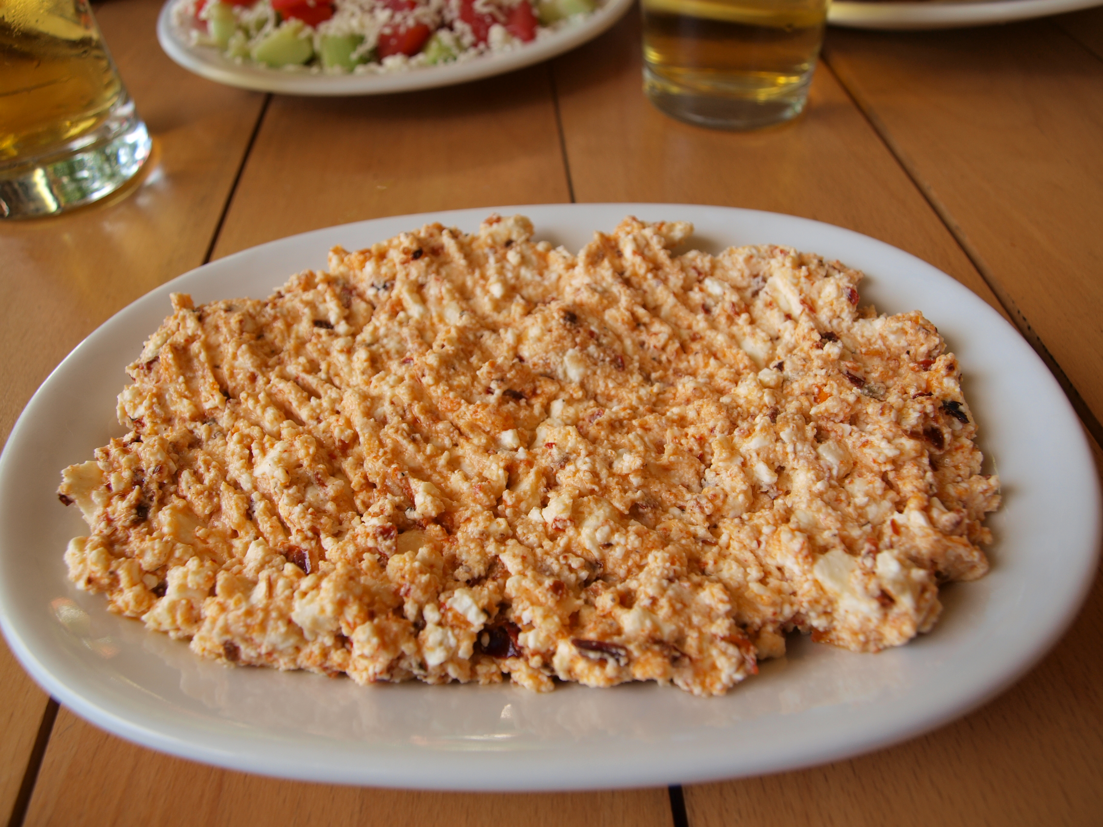 Urnebes salade, Serbian cuisine.